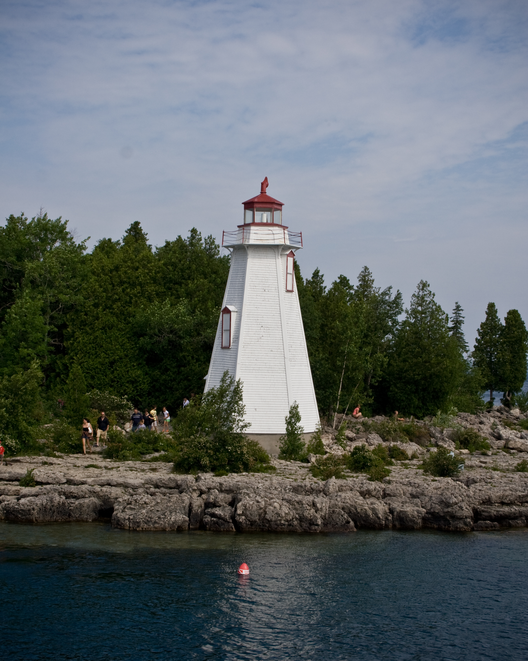 As I am sure you have noticed, I've hardly uploaded anything this month. I think I'm going to make it official and announce that I am going to take a break for a few months, at least until I feel the inspiration for a new 365 project. I'll try and upload a new image once and a while, just to prove I'm not dead! As for this image, I shot it back in Tobermory during the summer.